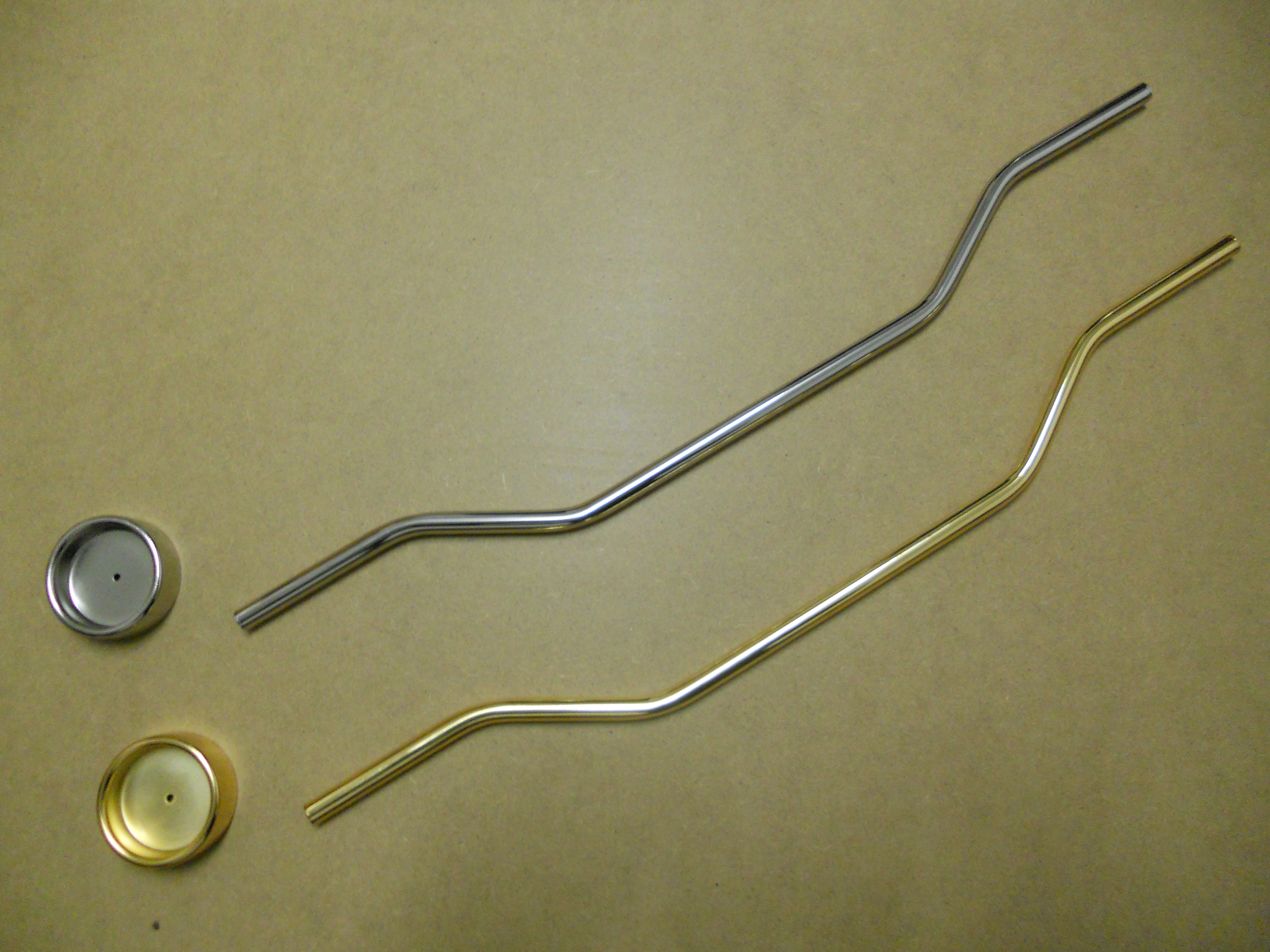 golden parts (and traditional parts) of Parentesi ( lamp designed by Achille Castiglioni and Pio Manzù for italian FLOS) the "golden Parentesi" is not for sale, is a special color for a special event.